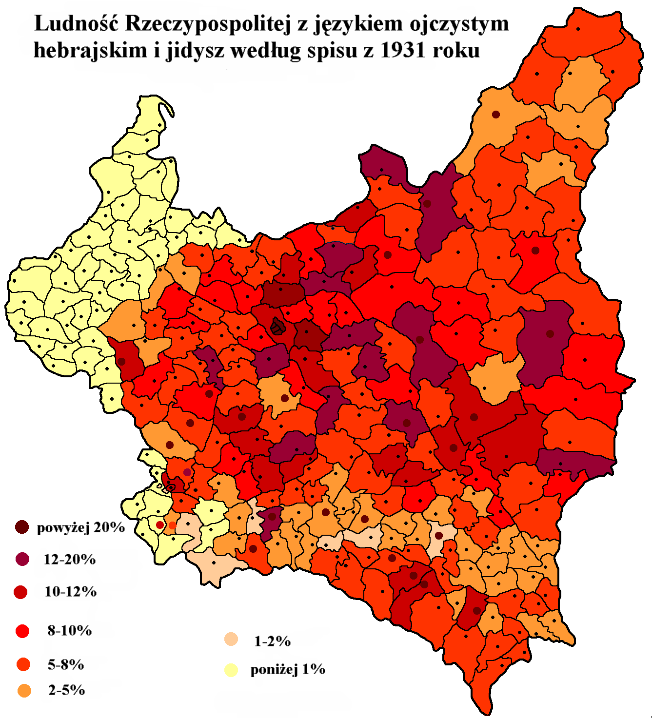 Hebrew and Yiddish language frequency in Poland in 1931